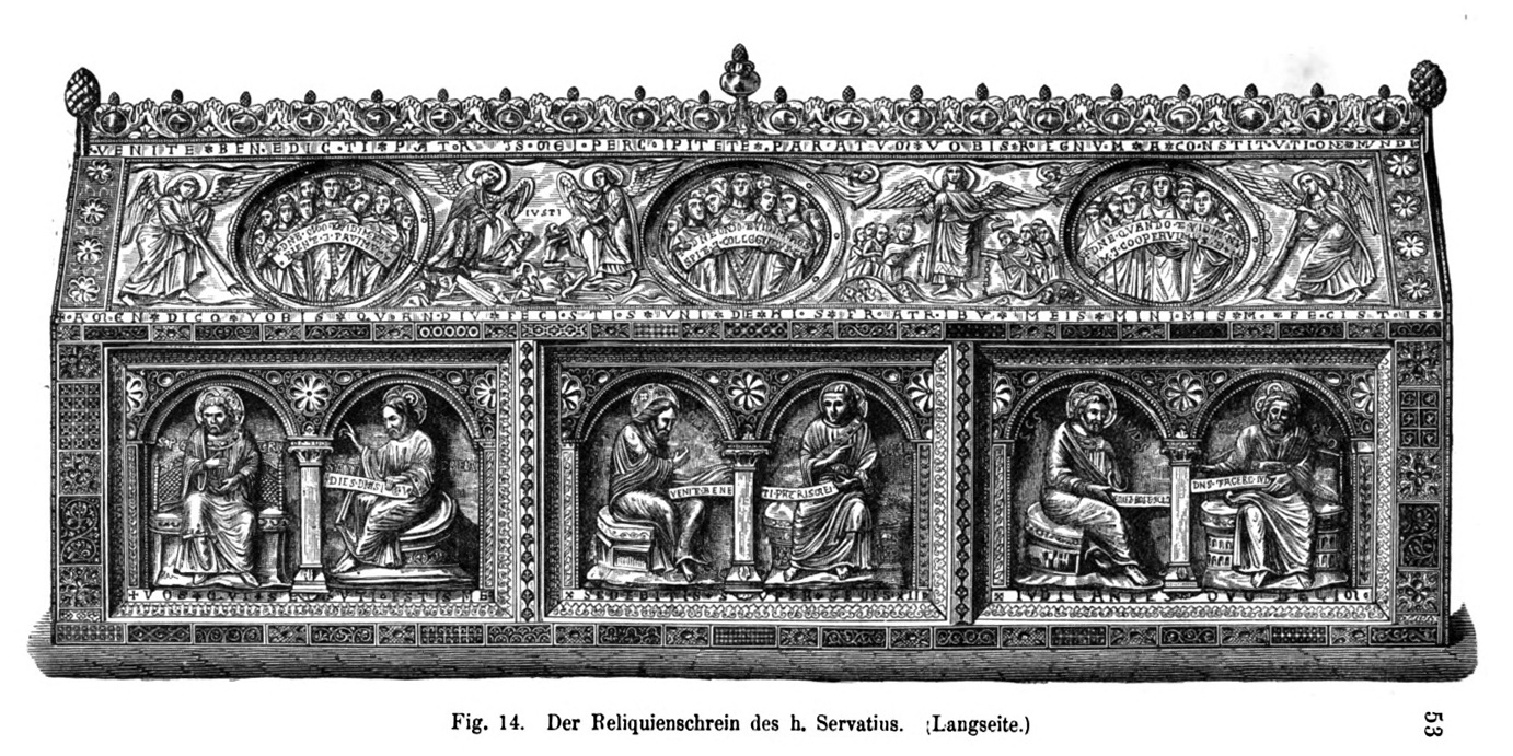 Woodcut illustration of the so-called Noodkist or reliquary chest of Saint Servatius (Mosan, 12th c.) in the Treasury of the Basilica of Saint Servatius in Maastricht, the Netherlands. One of 66 illustrations in Bock & Willemsen's 1872 publication on the church treasures of St. Servatius and Our Lady, both in Maastricht.